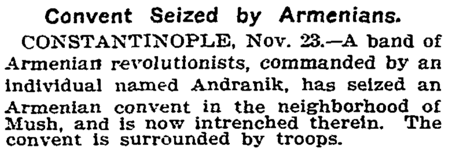 November 24, 1901